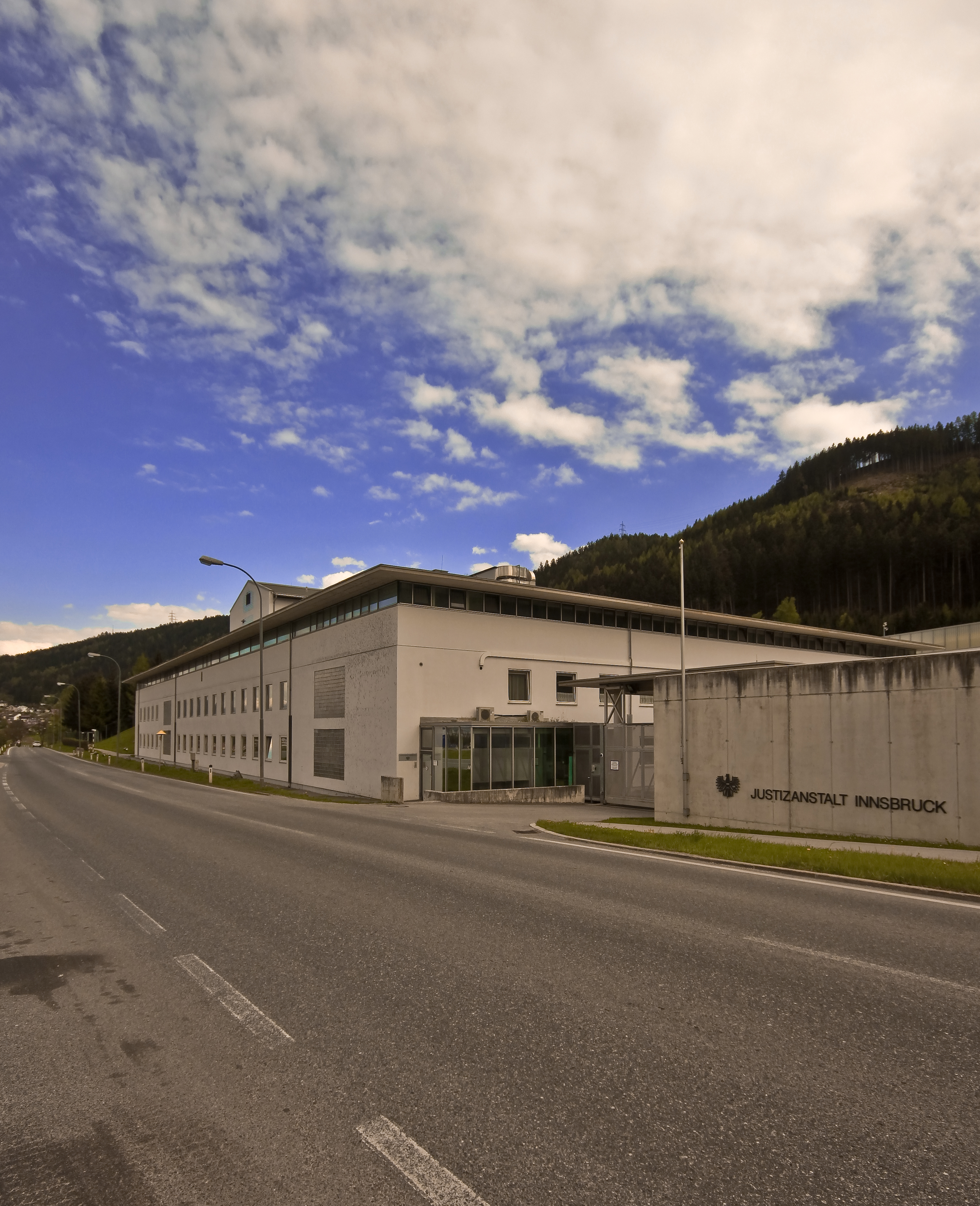 Innsbruck Prison